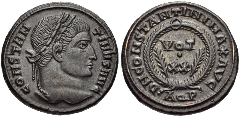 Constantine I. AD 307/310-337. Æ Follis (18mm, 3.92 g, 12h). Aquileia mint, 1st officina. Struck AD 322. CONSTAN-TINUS AUG, Laureate head right DN CONSTANTINI MAX AUG, in the middle VOT/XX in two lines; palm branch to left and right; all within laurel wreath; AQP. RIC VII 104; Paolucci 262.